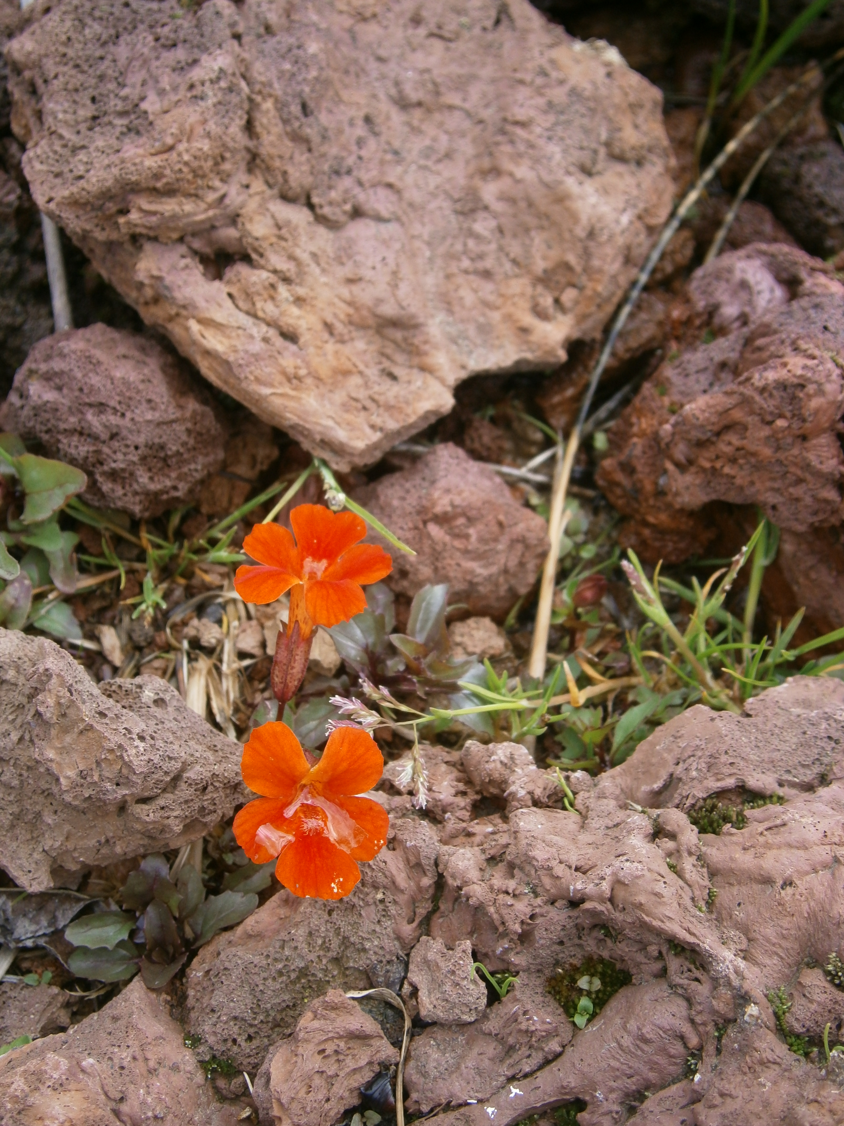 Mimulus cupreus in the Jardin Botanique Alpin du Lautaret